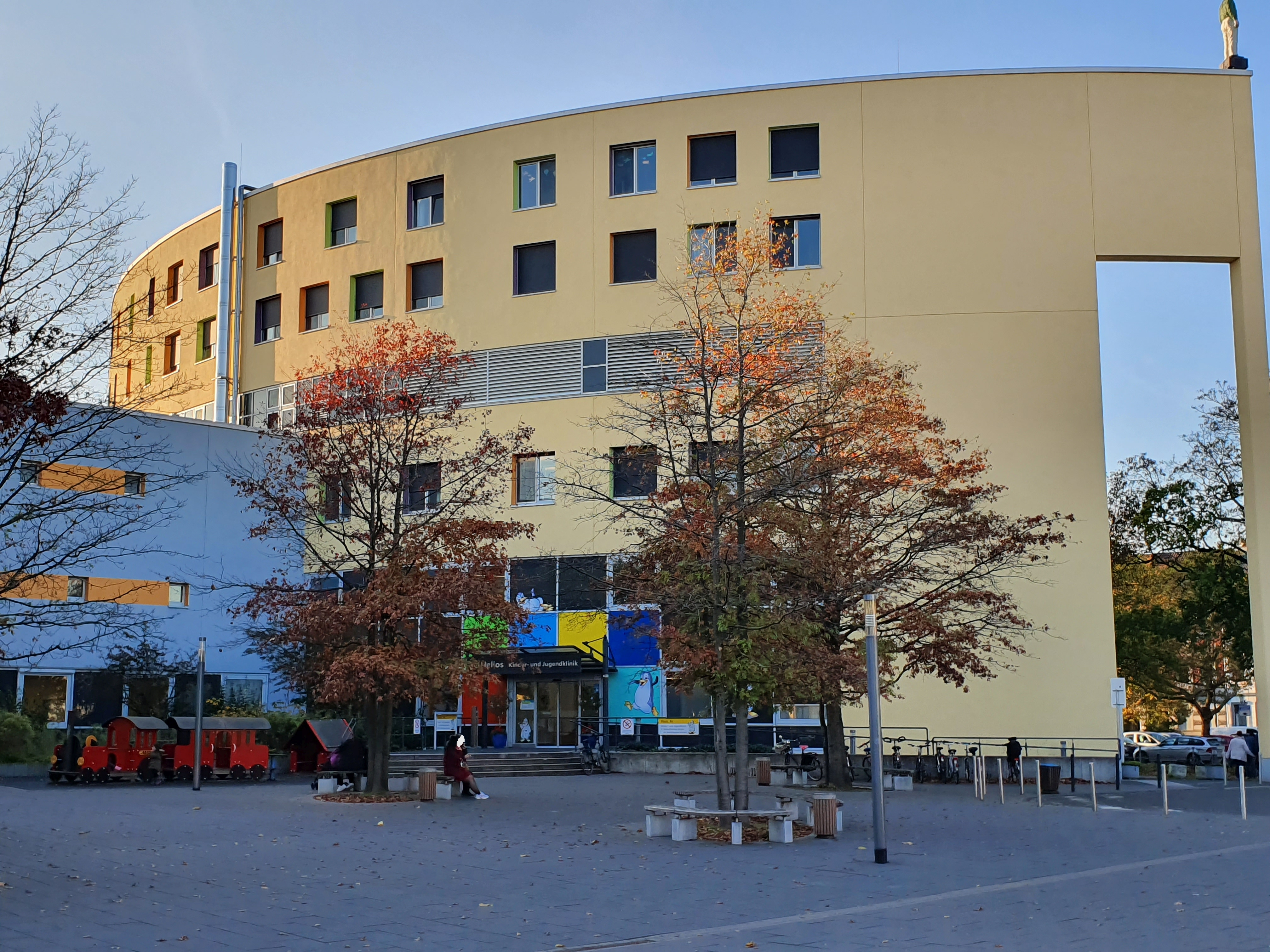 Helios Hospital Krefeld, Krefeld, Germany. Building A2 (Children's Clinic). Visible peoples' faces anonymized.